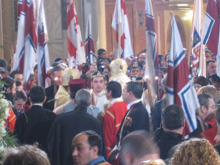 Wedding of Royal House of Georgia